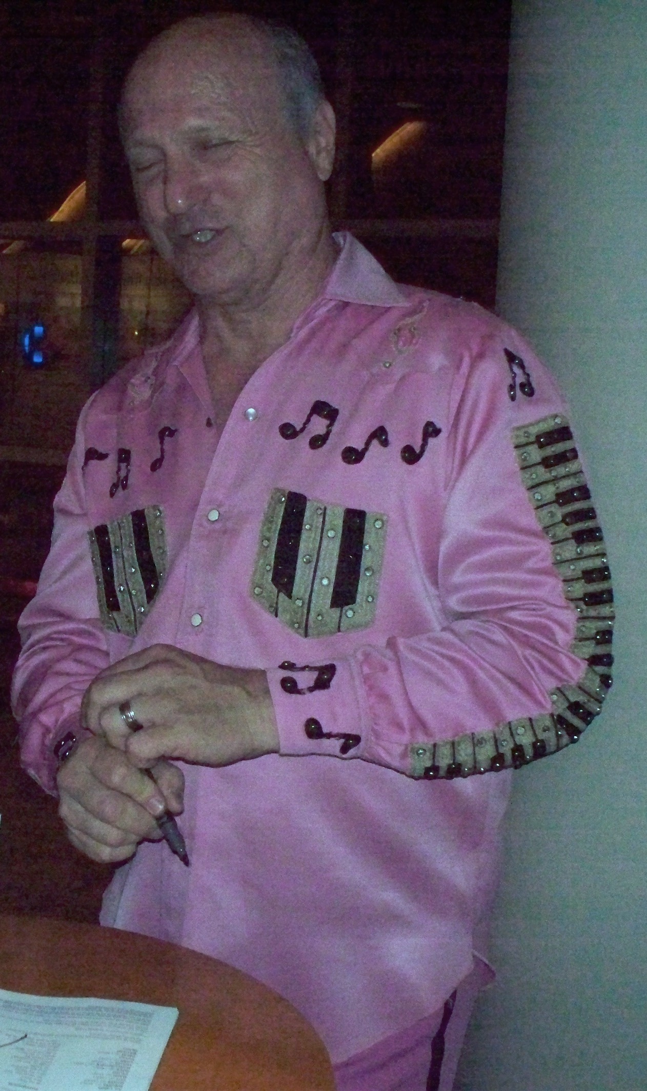 Picture of Screamin' Scott Simon signing autographs in Seattle, Washington.